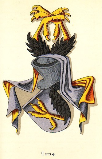 Coat of arms of the Urne family